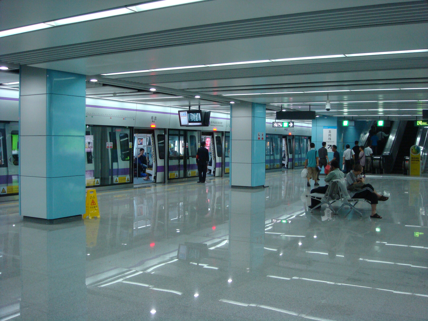 Buji Station of Huanzhong Line, Shenzhen Metro.